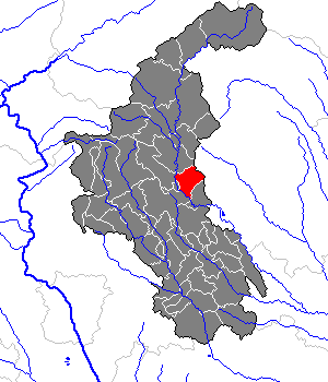 This map shows the area of the Gemeinde (municipality) Baierdorf bei Anger in the Bezirk (district) Weiz, Styria, Austria.